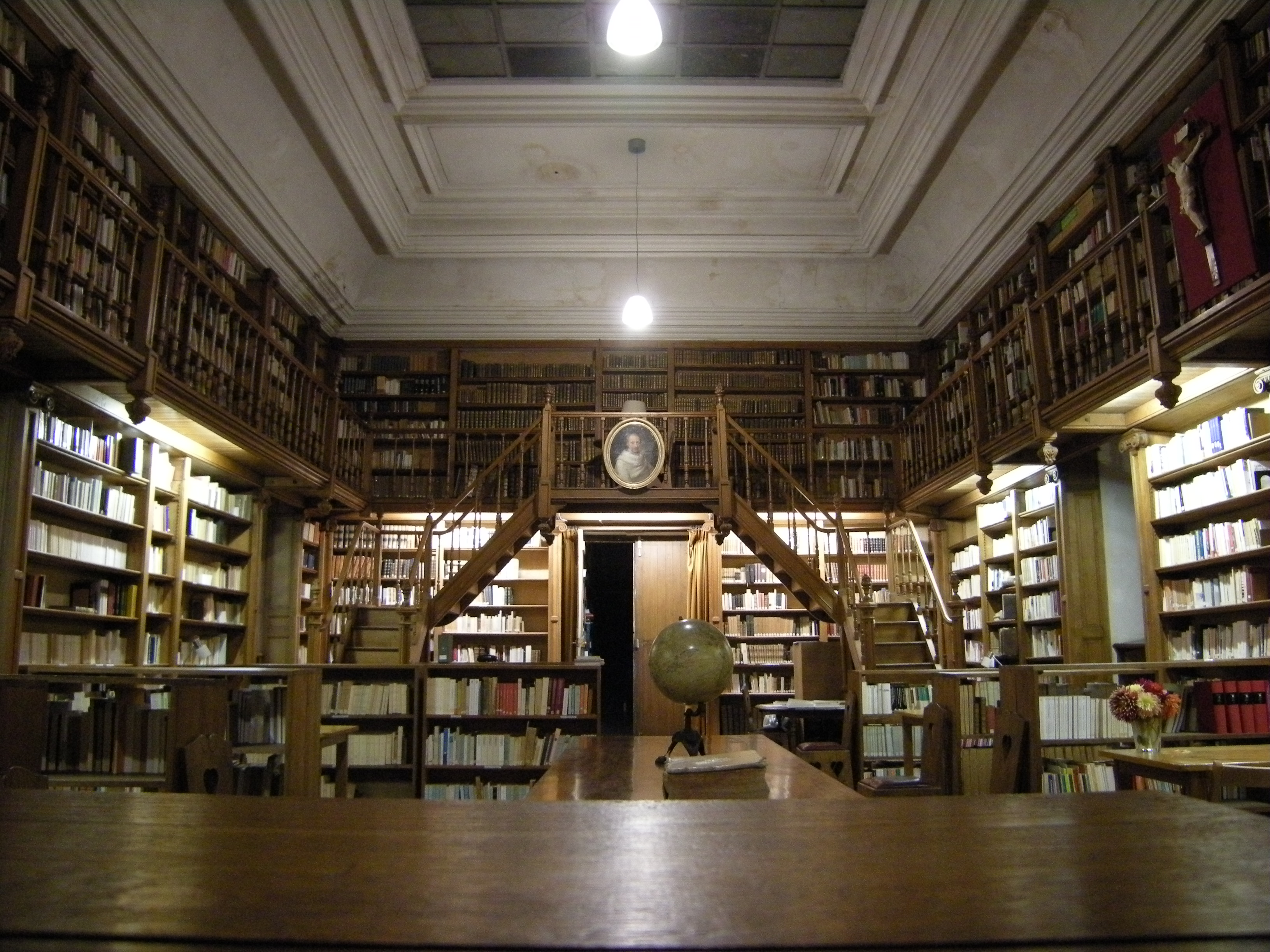 The library of the Abbey of Mondaye in France.